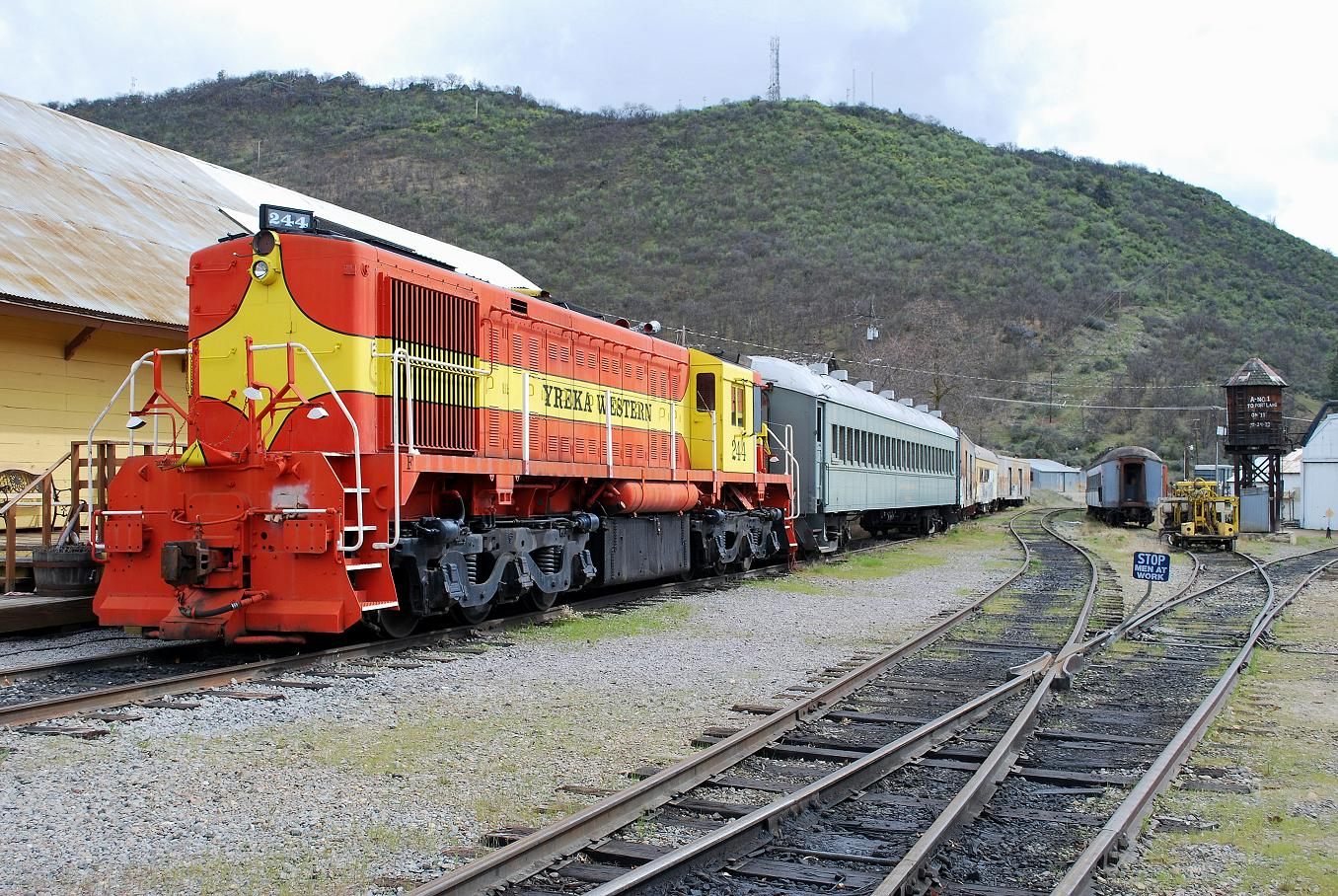 diesel-electric locomotive ALCO MRS-1 (YWRR#244) at Yreka Railroad Station